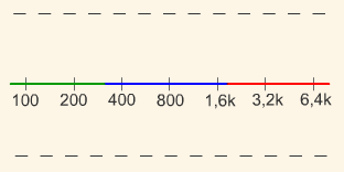 Flat graph of equalizer without any configuration